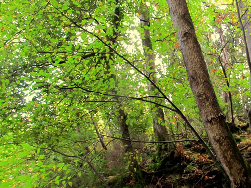 elba island